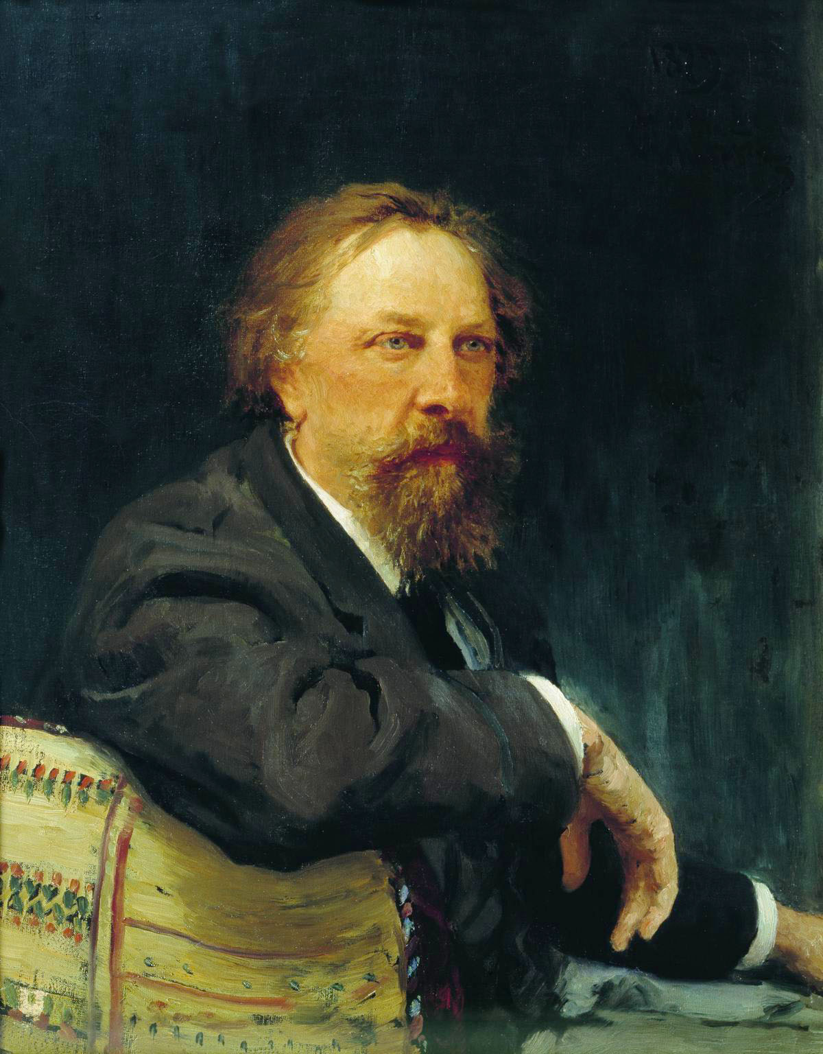 Portrait of the writer Aleksey Konstantinovich Tolstoy